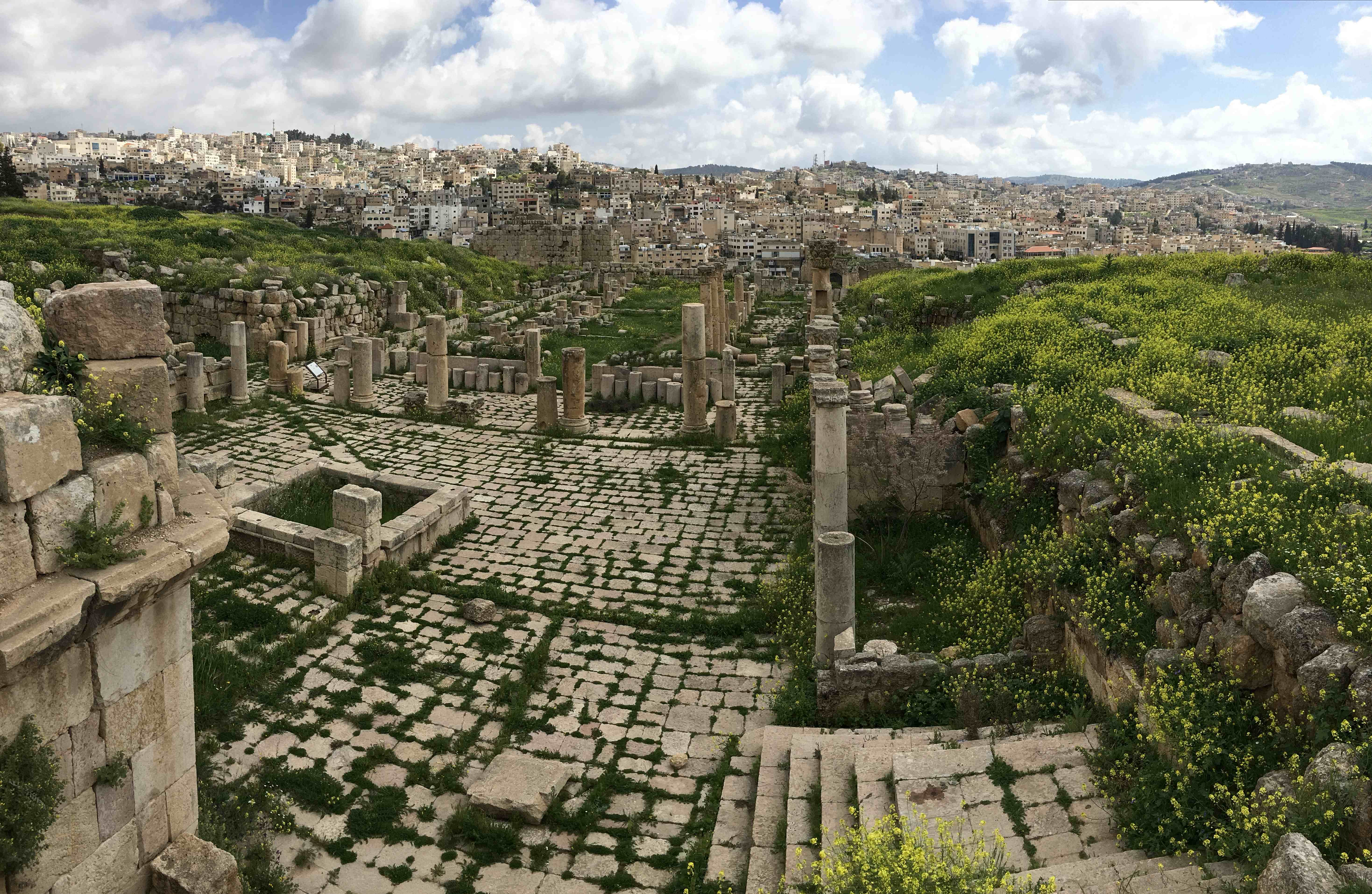 Fountain Court (Jerash)